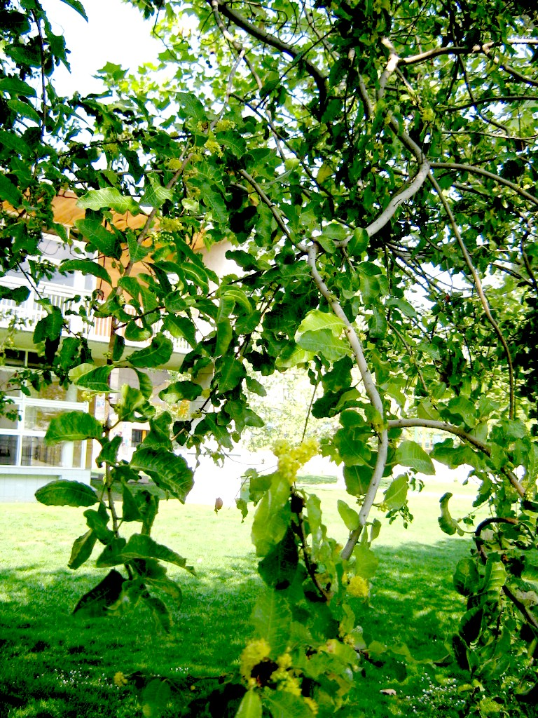 Schinus latifolius branch with flowers